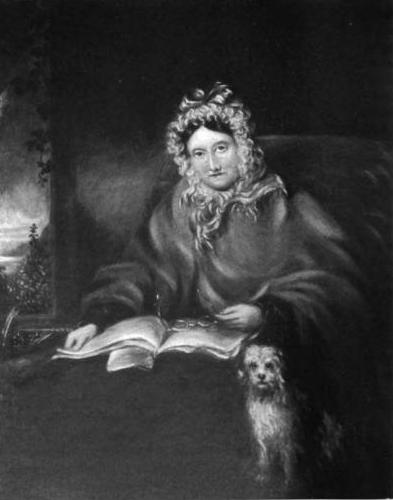 Image of Dorothy Wordsworth retrieved from David Rannie's 1907 biography of William Wordsworth.